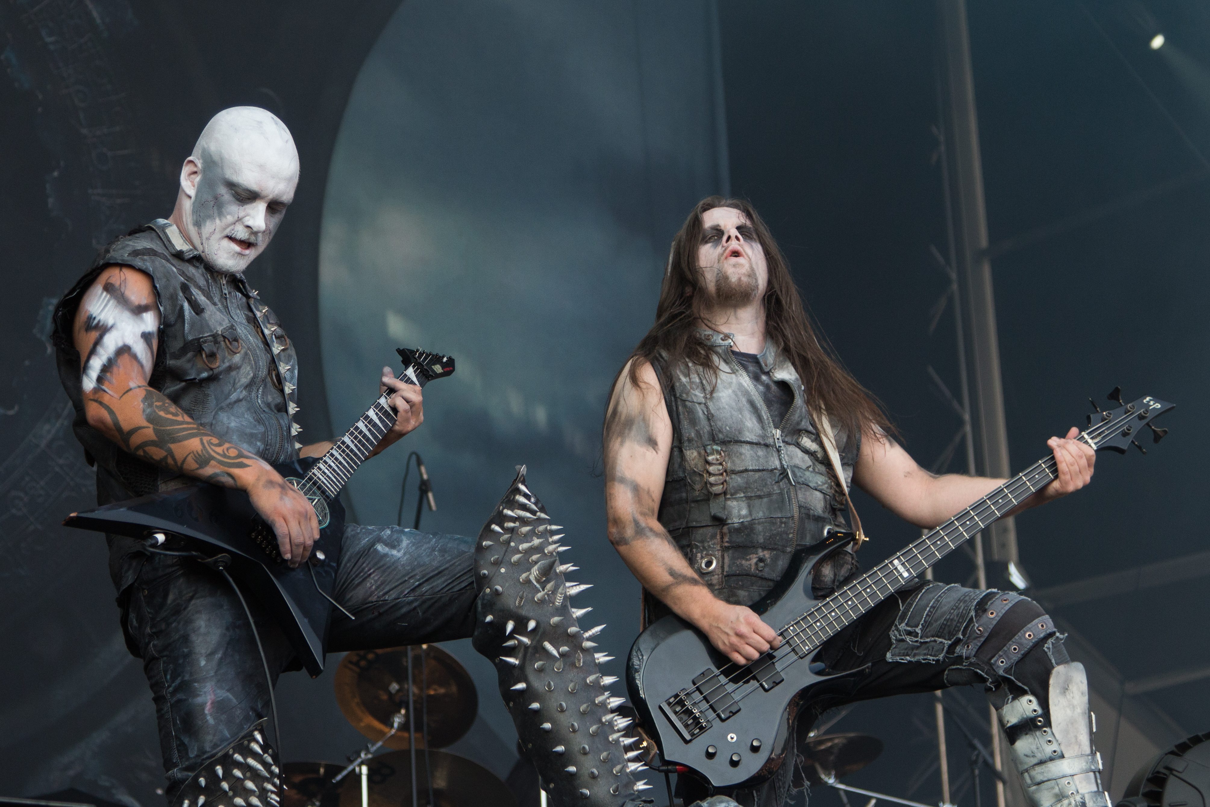 Thomas Rune "Galder“ Andersen and Terje "Cyrus" Andersen from Dimmu Borgir at the See-Rock Festival 2014